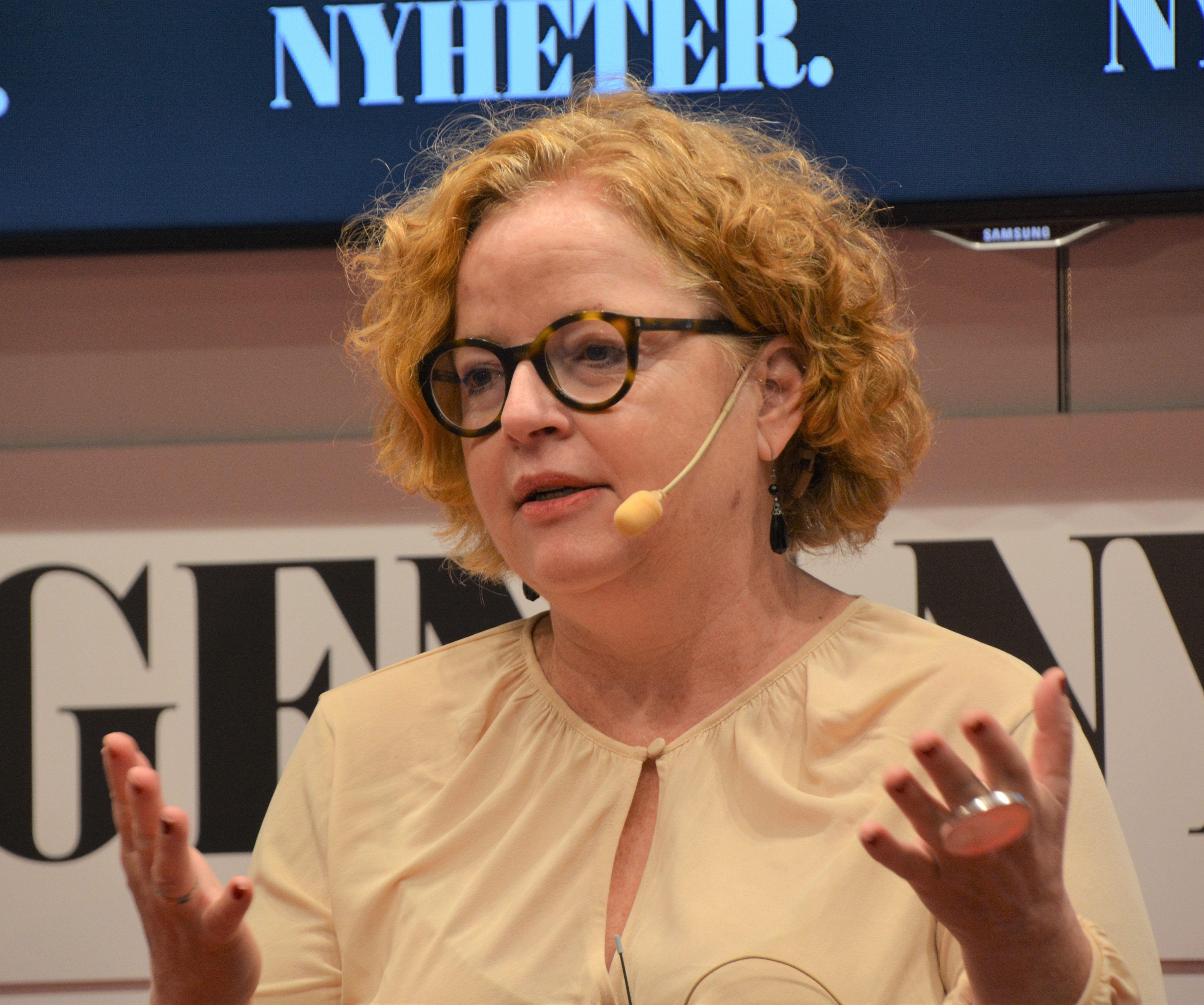 Ida Östenberg at Göteborg Book Fair 2019